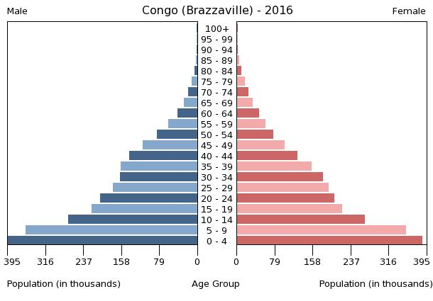 The population pyramid of the Republic of the Congo illustrates the age and sex structure of population and may provide insights about political and social stability, as well as economic development. The population is distributed along the horizontal axis, with males shown on the left and females on the right. The male and female populations are broken down into 5-year age groups represented as horizontal bars along the vertical axis, with the youngest age groups at the bottom and the oldest at the top. The shape of the population pyramid gradually evolves over time based on fertility, mortality, and international migration trends.